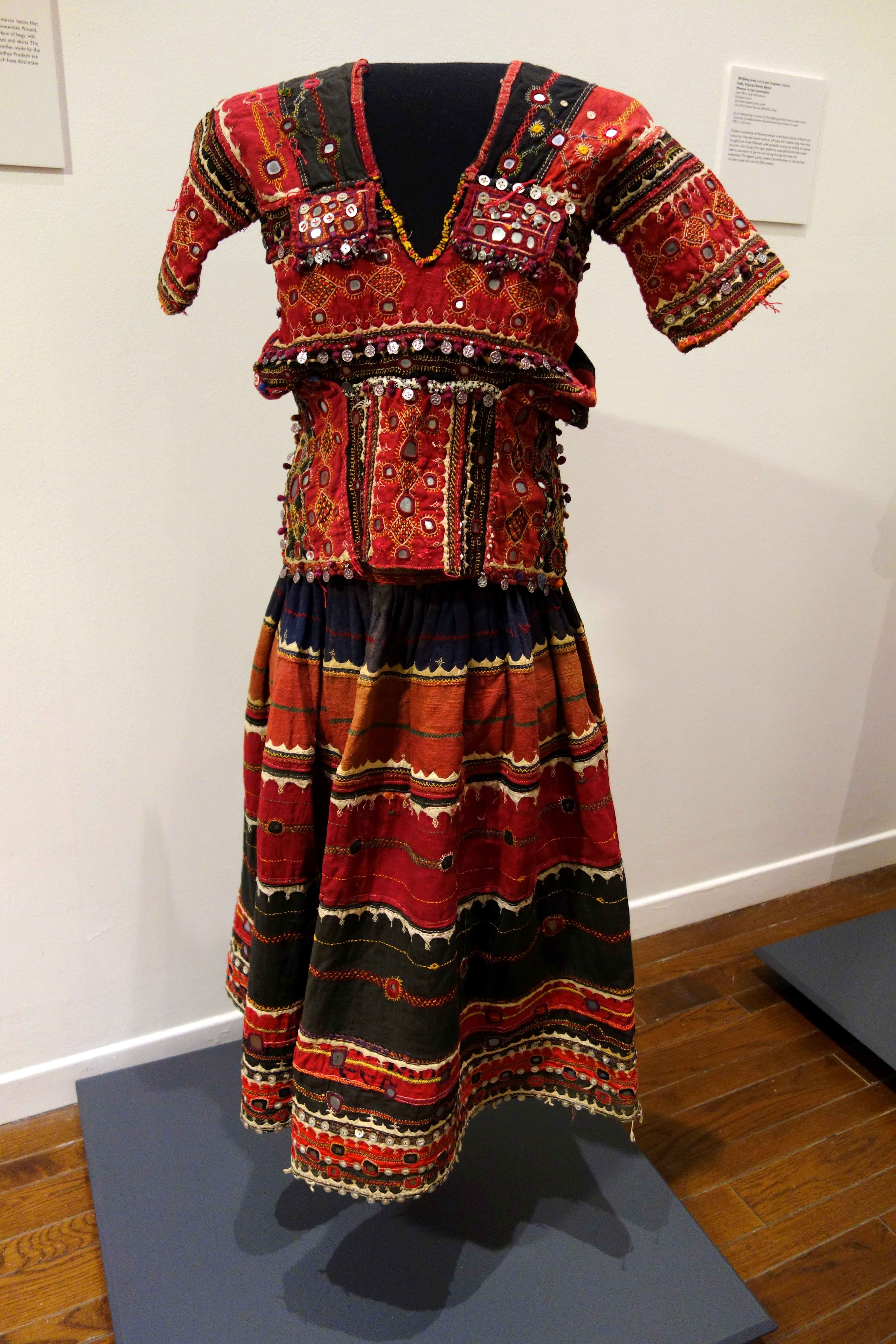 Exhibit in the Textile Museum of Canada, 55 Centre Avenue, Toronto, Ontario, Canada.